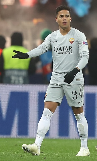 Justin Kluivert with A.S. Roma in a game against PFC CSKA Moscow.